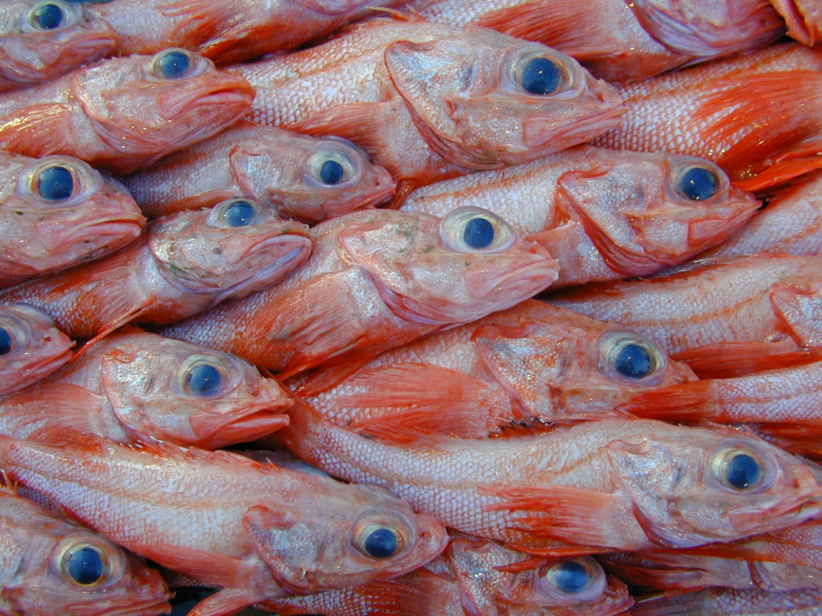 Longspine thornyheads (Sebastolobus altivelis) caught during west coast groundfish survey on board the NOAA chartered fishing vessel Coast Pride.